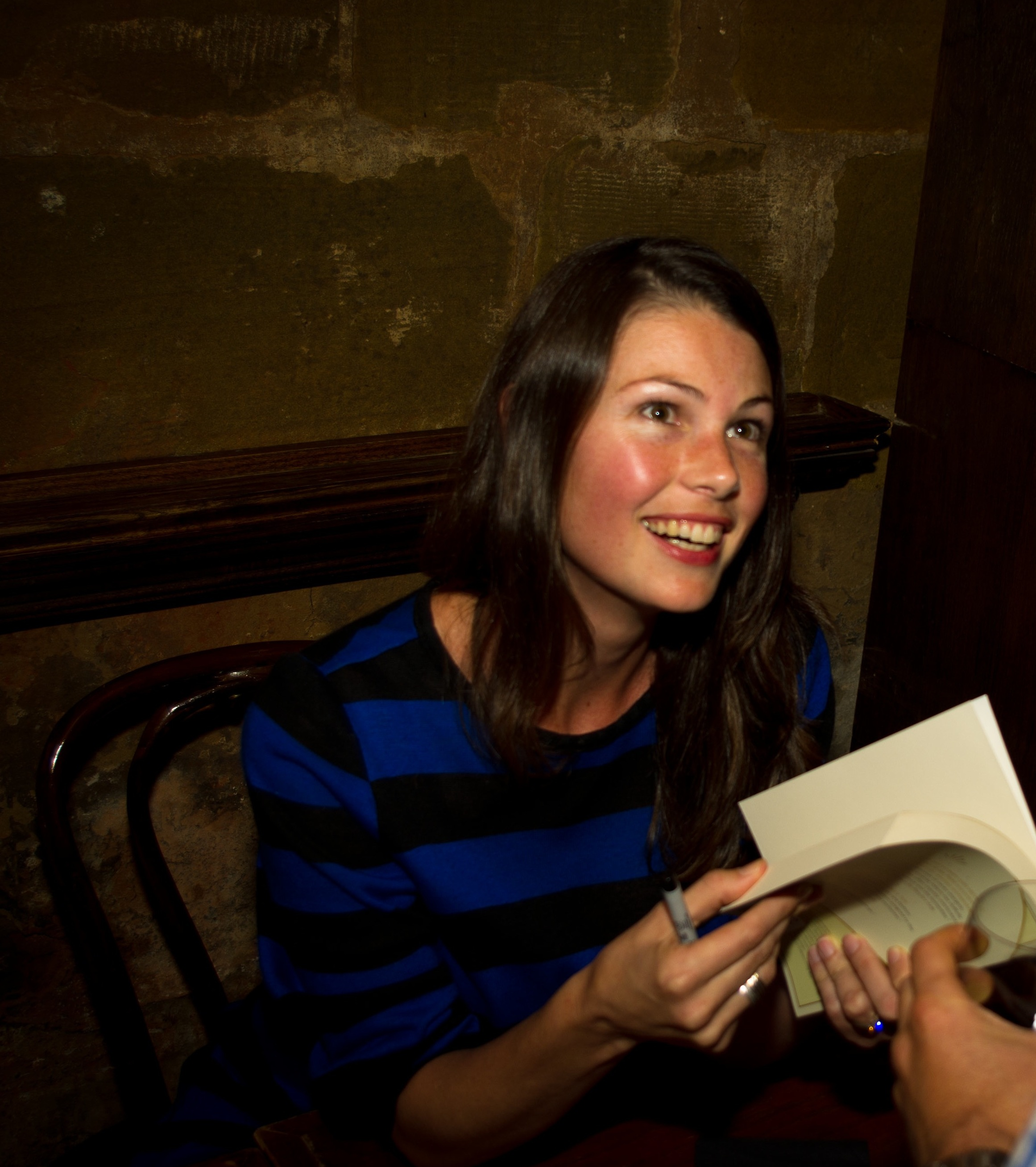 U.S. Book Launch event in San Francsico